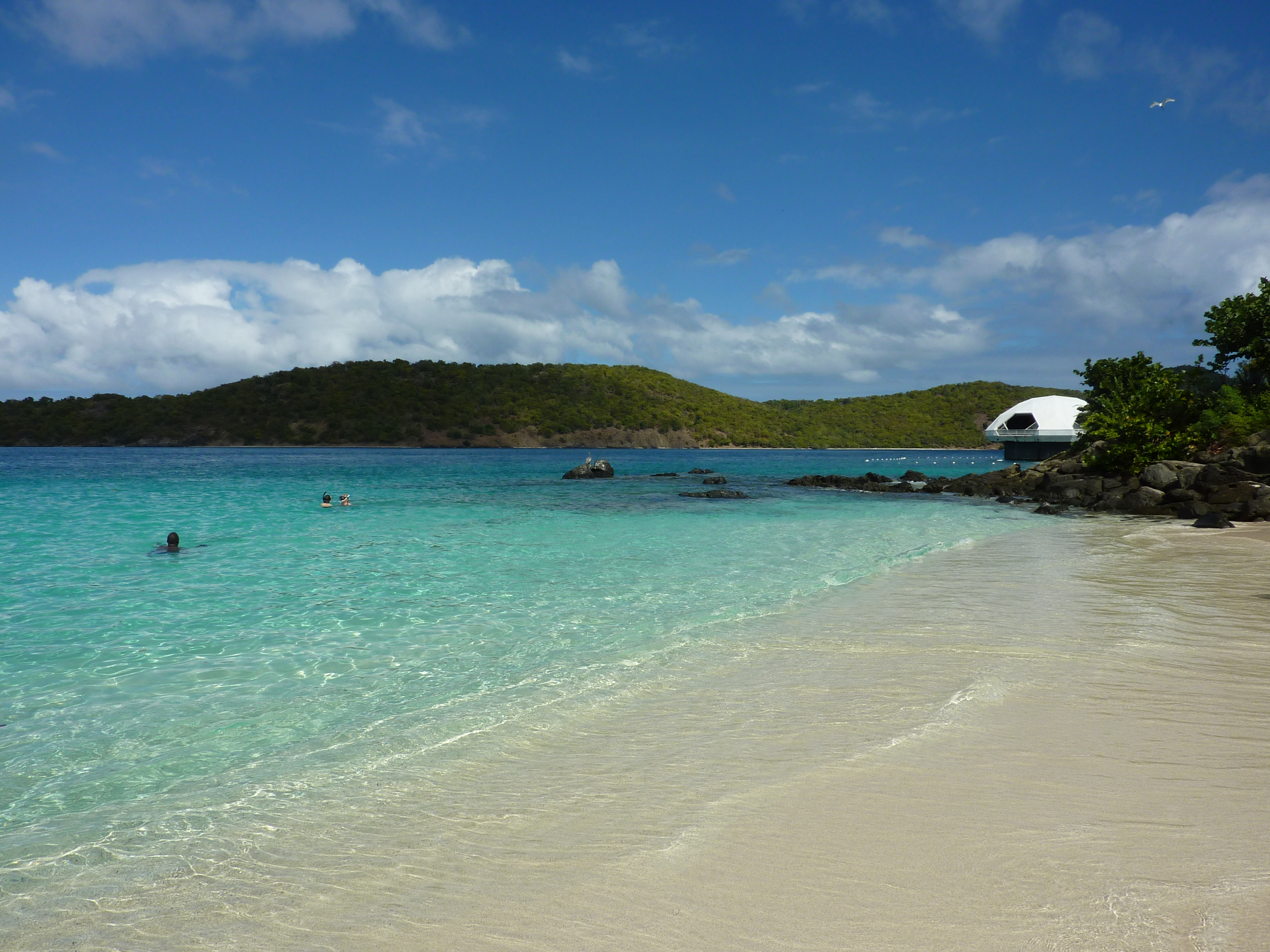 View from Coki Beach, facing northeast (Coral World observatory tower and Thatch Cay), St Thomas, US Virgin Islands, Dec 2012.